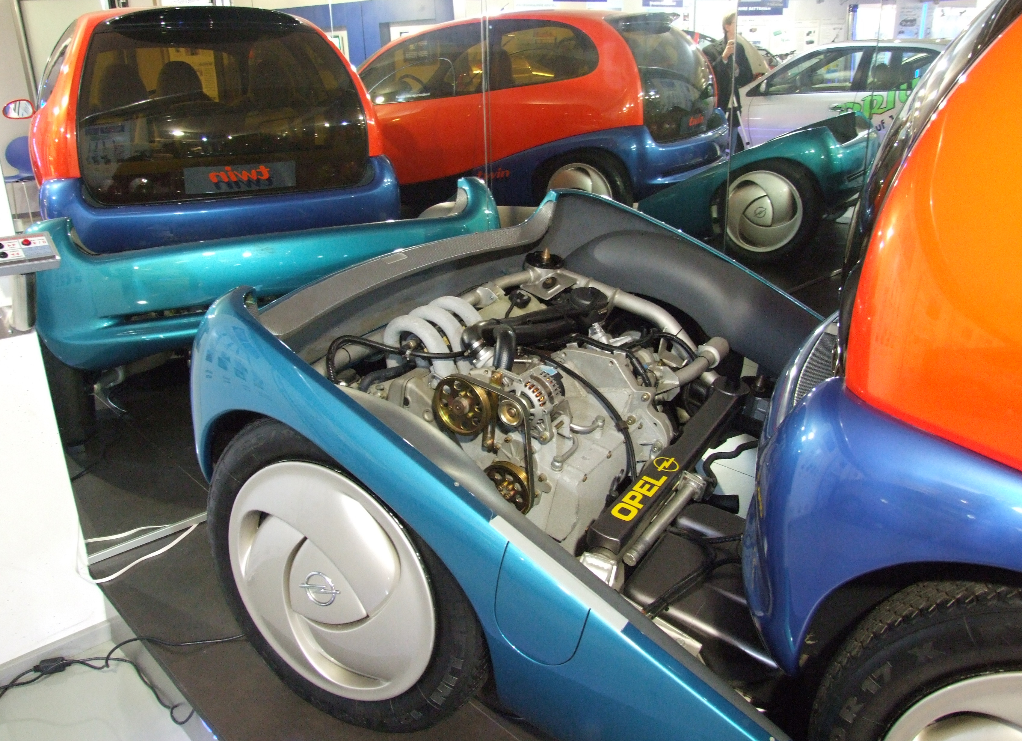 Prototyp Opel Twin, an electric car and combustion car, year 1992, special exihibition sept. 08 - march 09 at Museum Autovision , Altlußheim